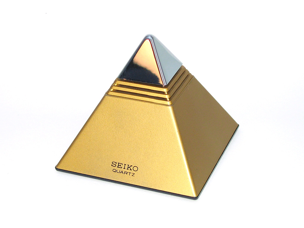 World's first talking clock, the Seiko Pyramid Talk, from 1984. It works by pressing the little shiny pyramid at the top. The LCD display and control buttons are located on the bottom. When using the alarm, the talking voice will sometimes ask you to "please hurry up". :) Photo taken with a Canon Powershot A95 camera.